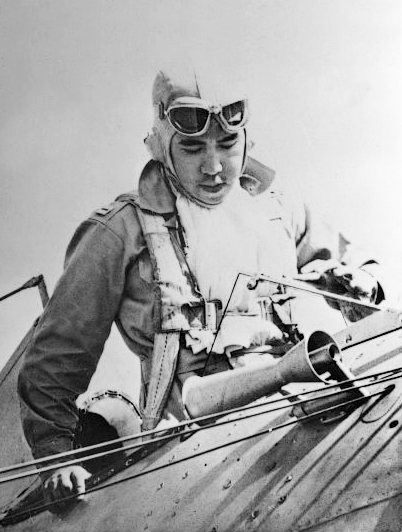 Col. Jesús A. Villamor, commanding officer of the 6th Pursuit Squadron, getting out of the plane after returning from a flight to Batangas Field.